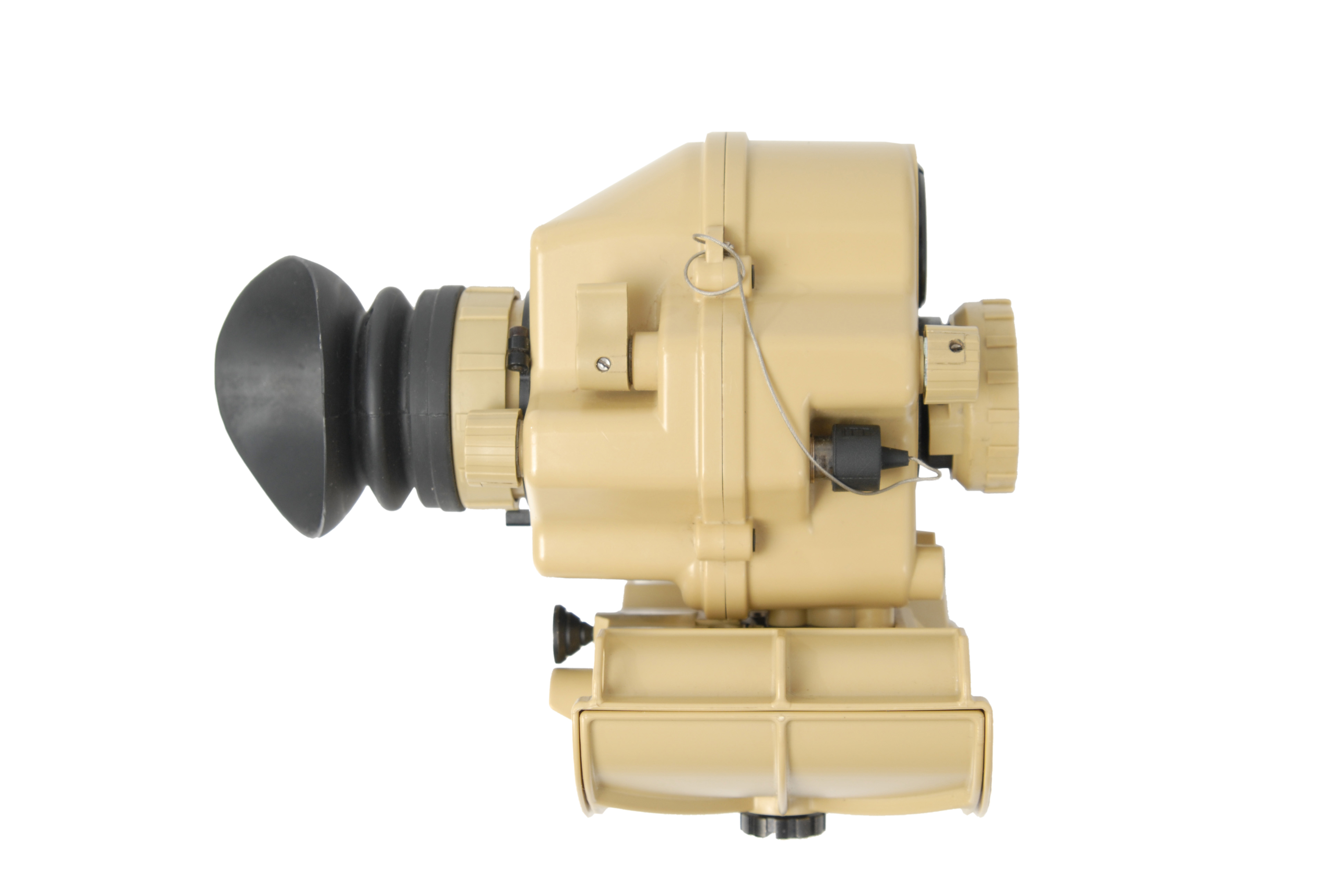 The Enhanced Night Vision Goggle (ENVG) combines image intensification and passive thermal imaging in one system for better situational awareness and increased lethality at night or in degraded battlefield environments.